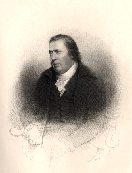 William Smellie, engraved by Henry Bryan Hall after George Watson (1840). From: John Wilson and Robert Chambers, The Land of Burns: A Series of Landscapes and Portraits, Illustrative of the Life and Writings of the Scottish Poet (Glasgow: Blackie & Son, 1840), facing vol. II, p. 4.William Smellie (1740-95) printed the Edinburgh editions of Robert Burns's works and was a close friend of the poet. Besides being a Master Printer, Smellie was a learned and versatile man of letters and knew many of the most prominent writers and philosophers of Enlightenment Edinburgh. He edited the first edition of the Encyclopaedia Britannica (1771), published a Philosophy of Natural History (1790), and started the Edinburgh Magazine and Review (1773-76) with Gilbert Stuart.